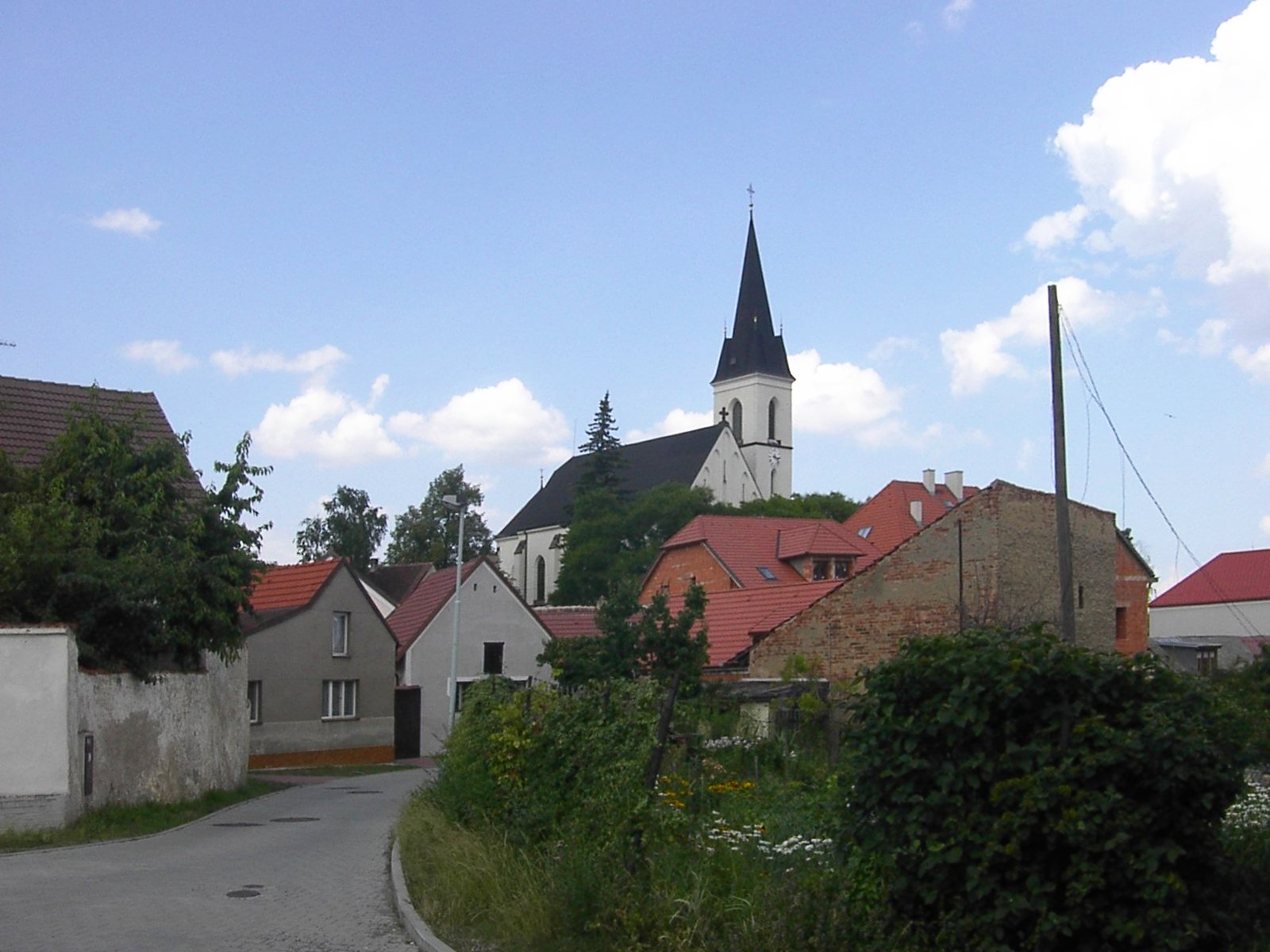 Prague-Stodůlky, the old quarter.